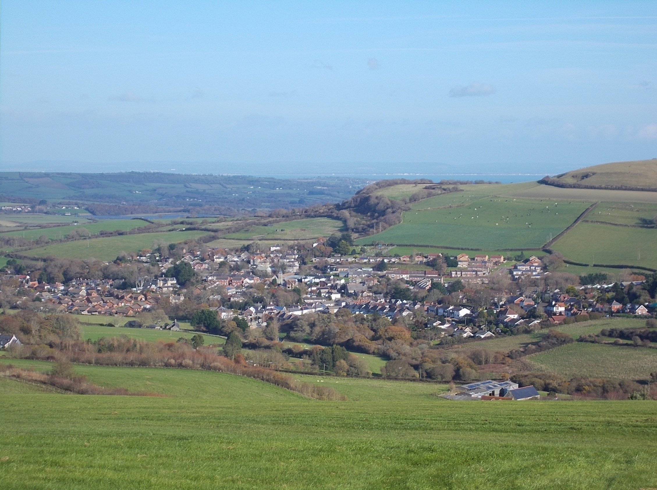 Wroxall, Isle of Wight, UK; view from Stenbury Down